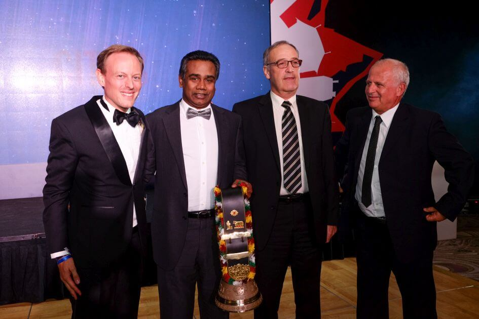 From left to right: Dr. Tom Ludescher, Rajan Arul (General Manager Firmenich Singapore), Guy Parmelin (Federal Councillor of Switzerland), and Thomas Kupfer (former Ambassador of Switzerland to Singapore)